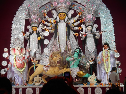 বাগবাজার সার্বজনীন